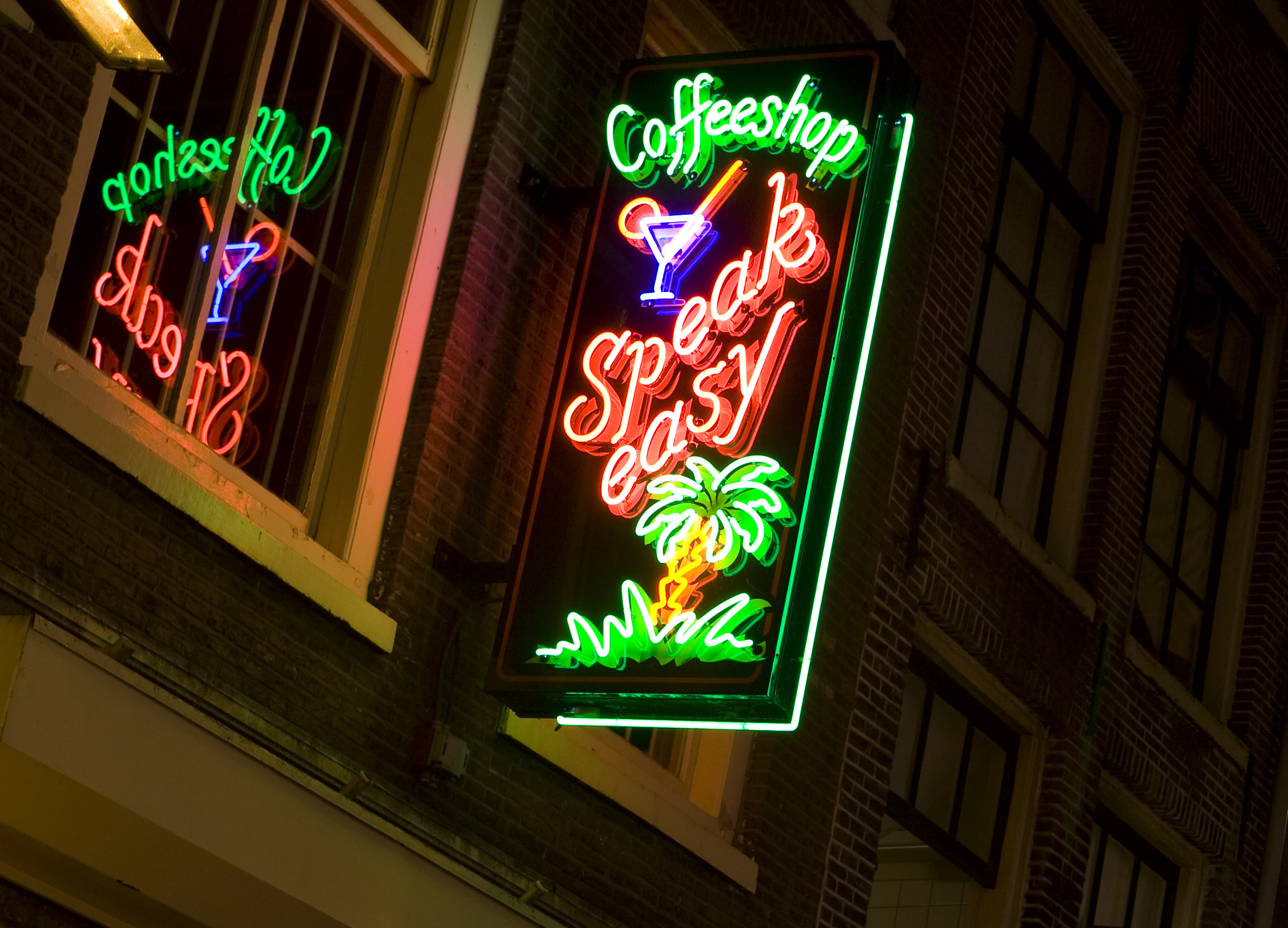 A view of a neon sign of a cannabis coffee shop in Arnhem, The Netherlands.